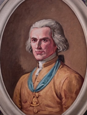 Colonel Joseph Montfort (1724-1776) who was the First Provincial Grand Master of Masons in The Carolinas and all of America according to some. The was the first clerk of the Court of Halifax County. The was also a colonel of the colonial militia and a member of the provincial congress. This painting hangs in the Grand Lodge of North Carolina building in Raleigh. Considered fair use as it is a photograph of a two-dimensional work whose author died at least 200 years ago. Eric Cable - Talk 15:56, 30 March 2012 (UTC)